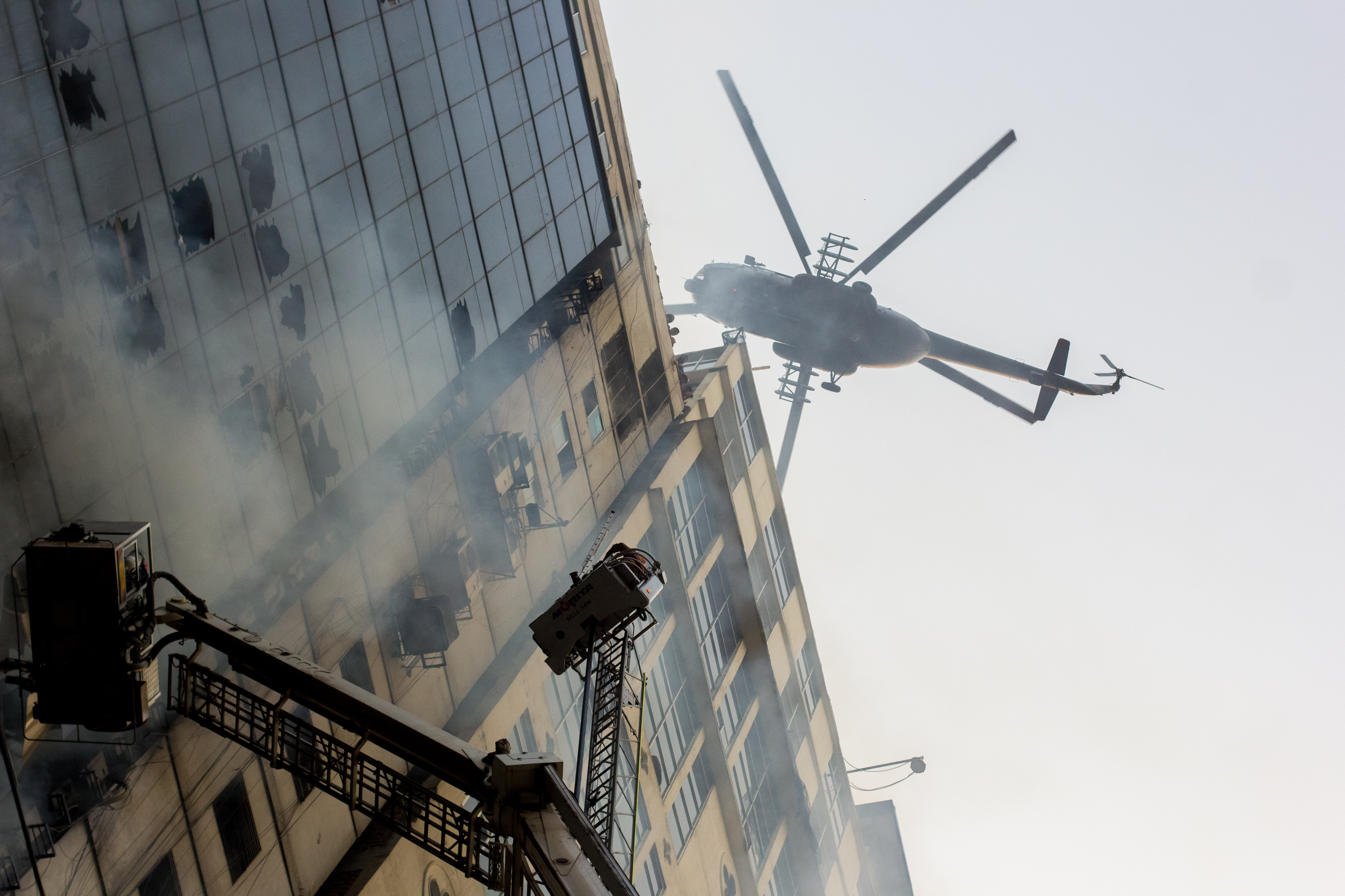 Fire Accident in FR Tower, Banani